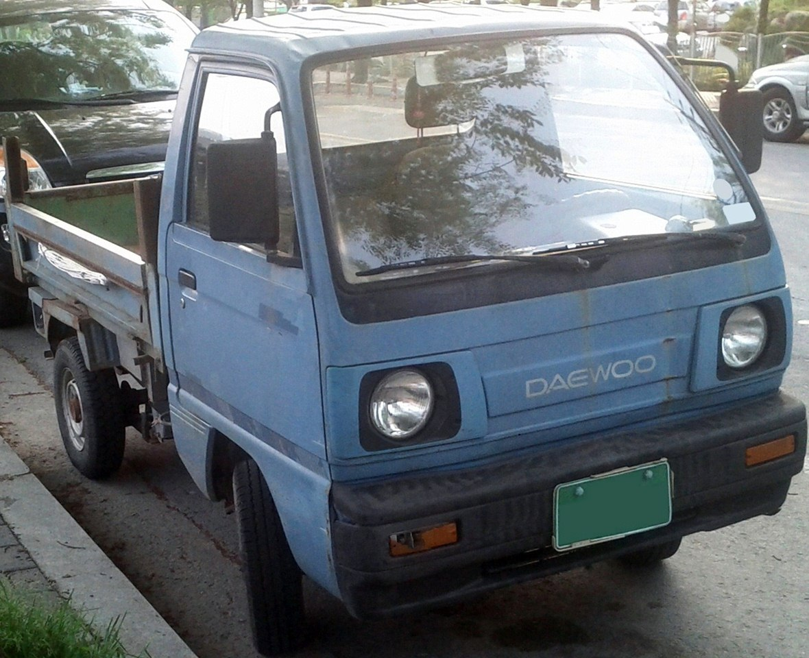 Daewoo Labo